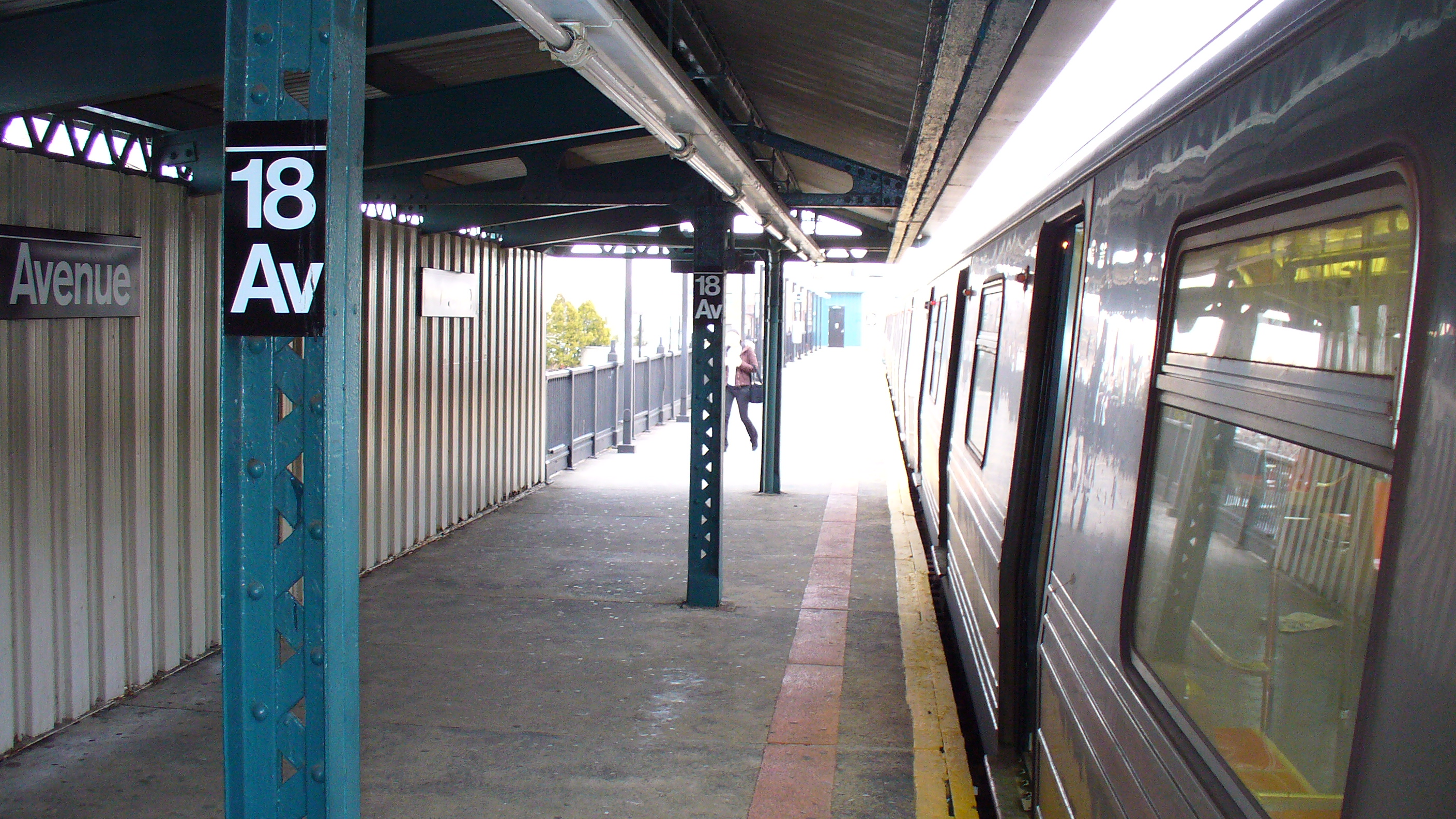 18th Avenue D Line NYC Subway Station by David Shankbone